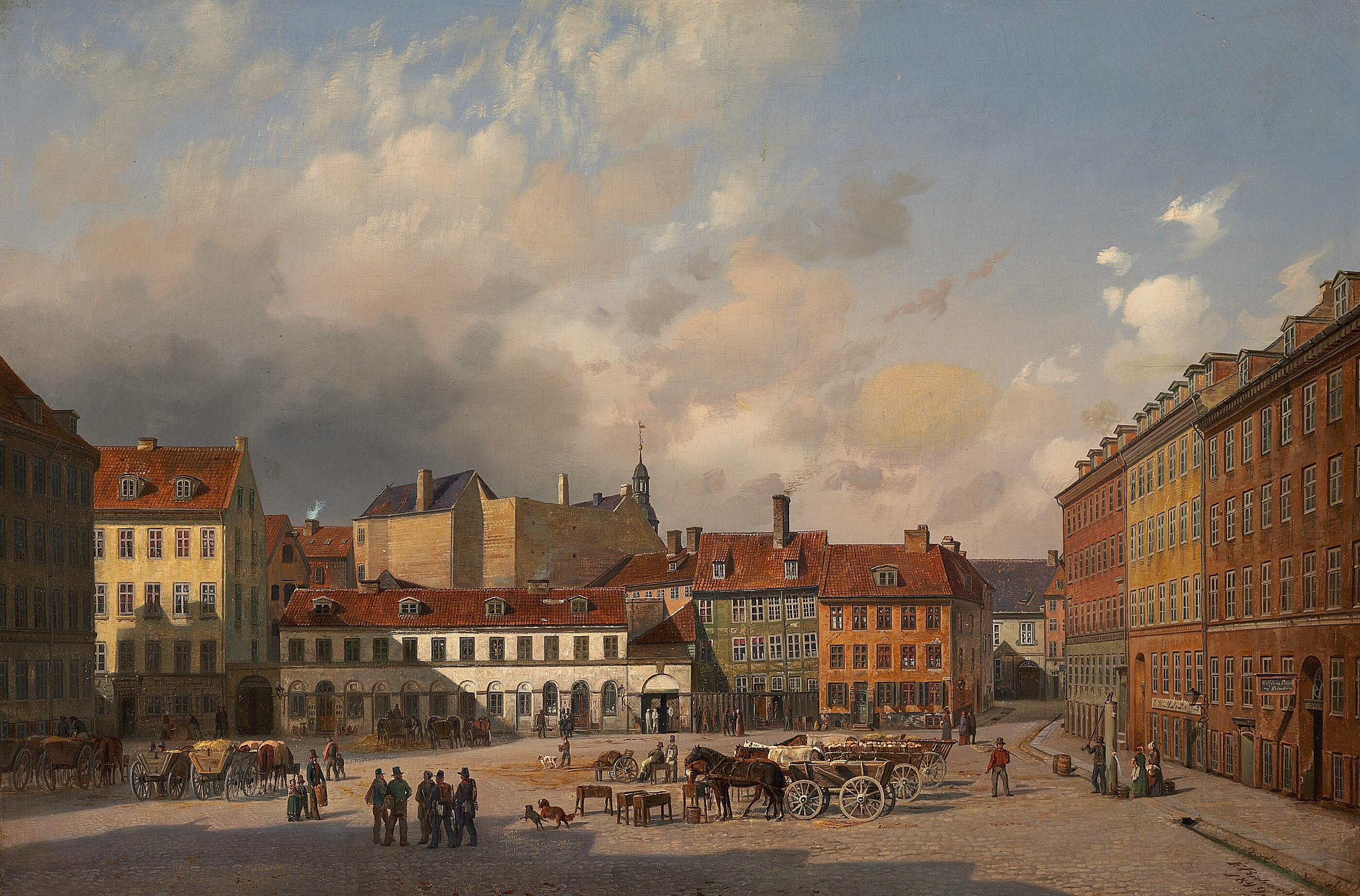 A view of Hauser Plads, Copenhagen , 1849